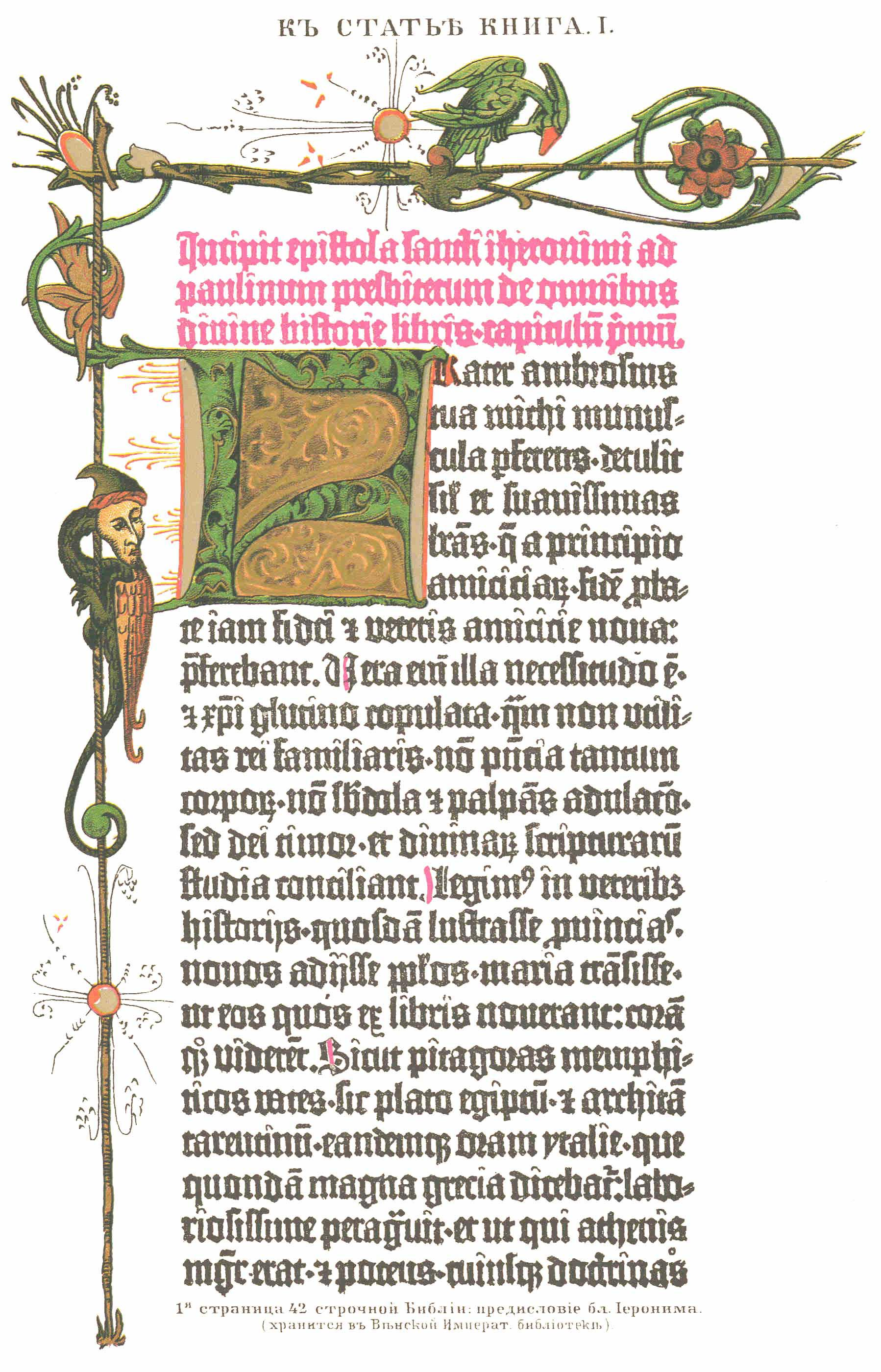 Illustration from Brockhaus and Efron Encyclopedic Dictionary (1890—1907)